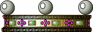 Herediditary Knight Crowns - Italia